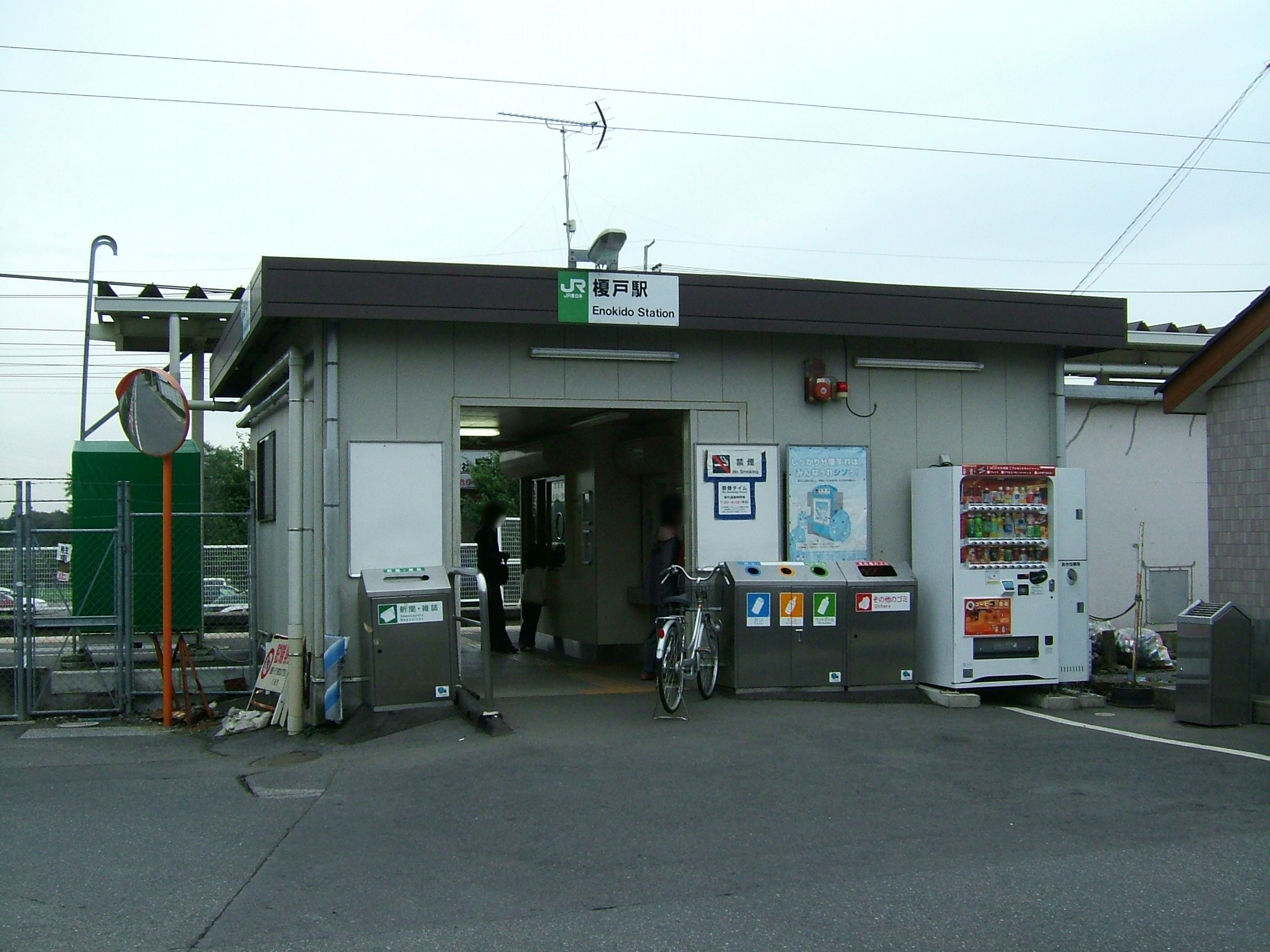 Enokido Station building (East Japan Railway Sōbu Main Line)